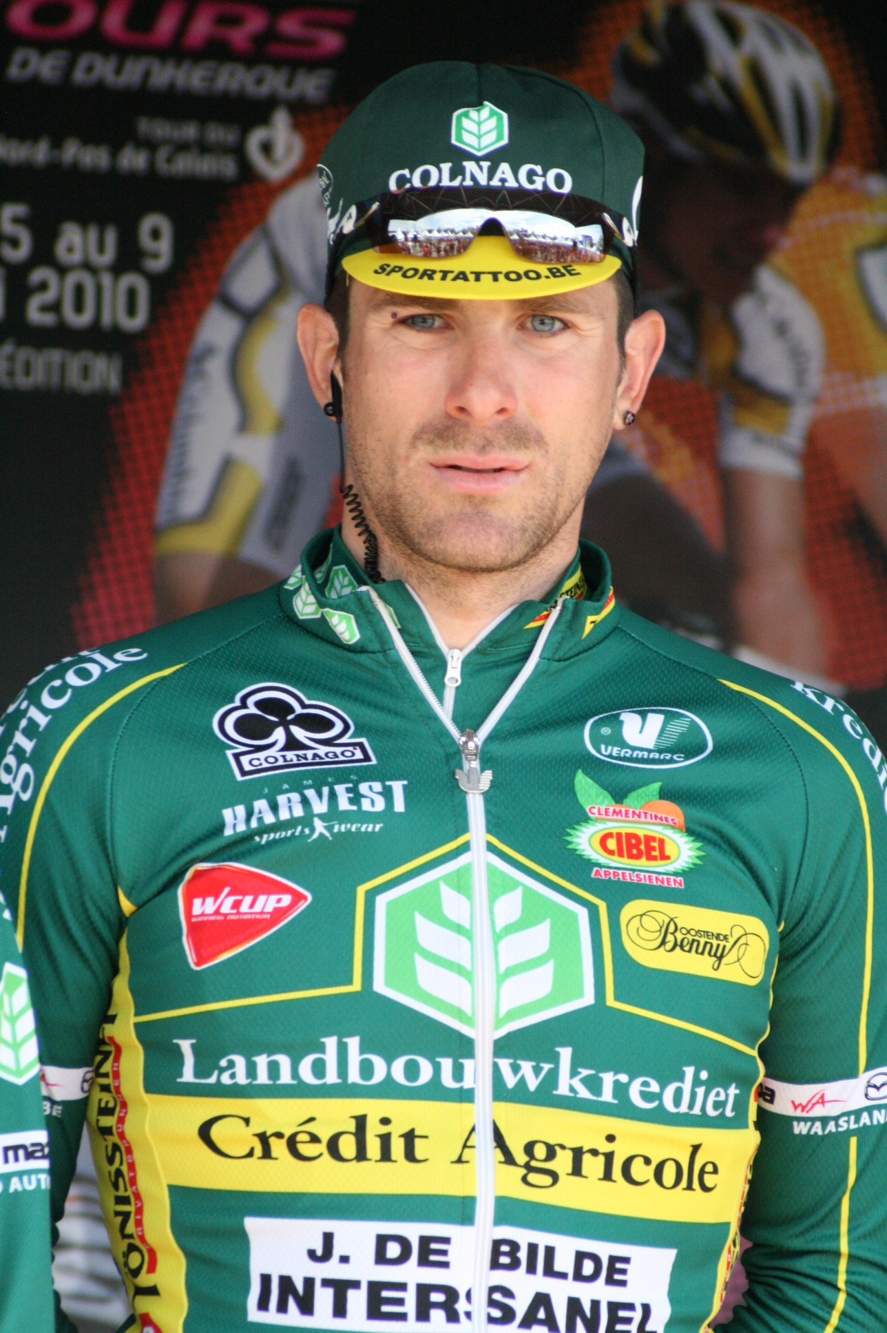 David Boucher at the team presentation for the 2010 Four Days of Dunkirk